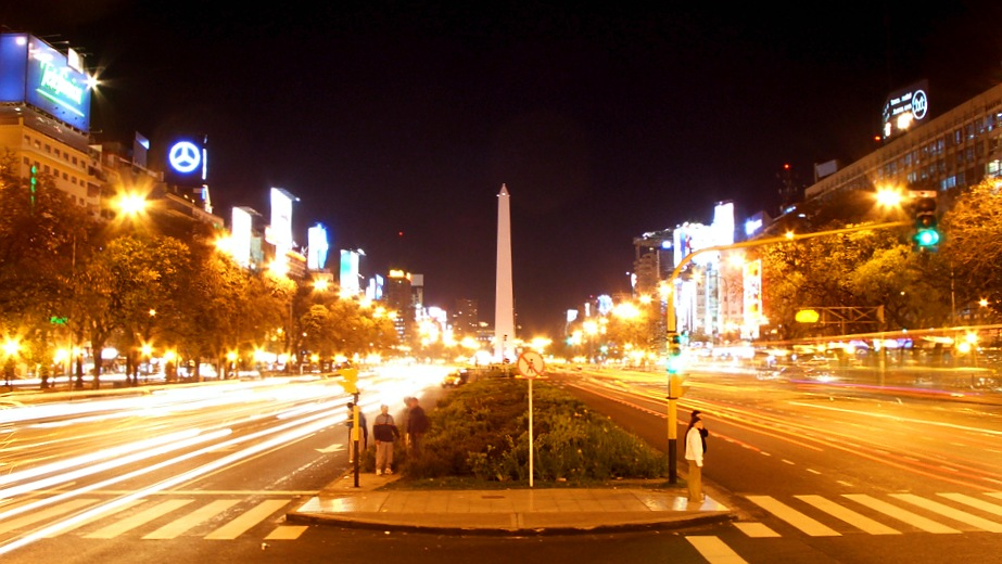 Buenos Aires's 9 de julio Avenue at night.